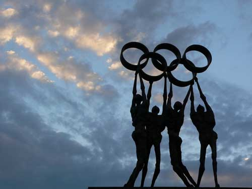 Olympic Monument at the Office Building of the IOC in Lausanne, Switzerland, photography, no restrictions on use Copyright: free of charges Credit: private